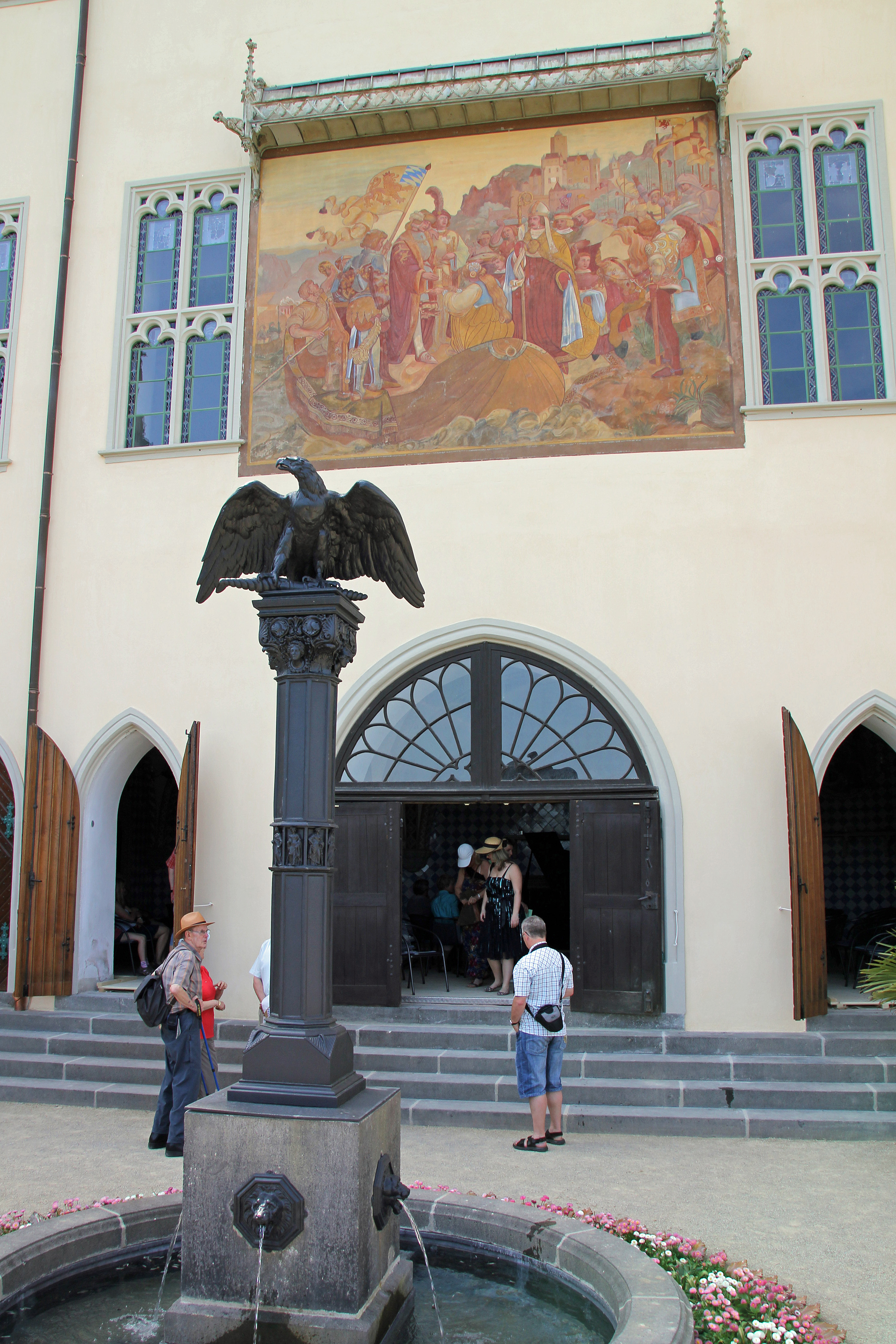 Federal Horticultural Show 2011 in Koblenz - Stolzenfels Castle